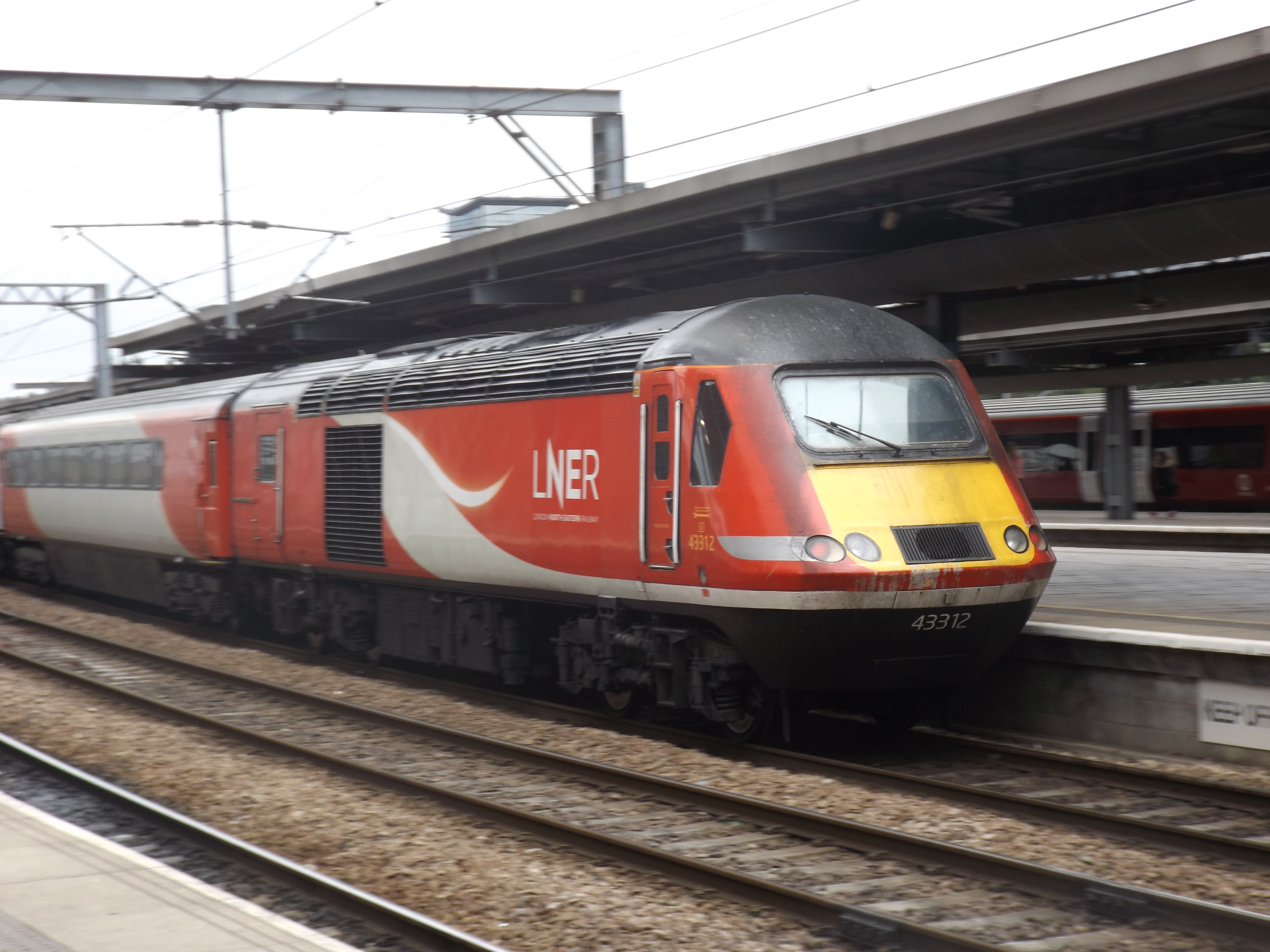 Locomotive 43312 at the rear of a passenger train leaving Leeds platform 8 in LNER livery. Leeds to London Kings Cross service.